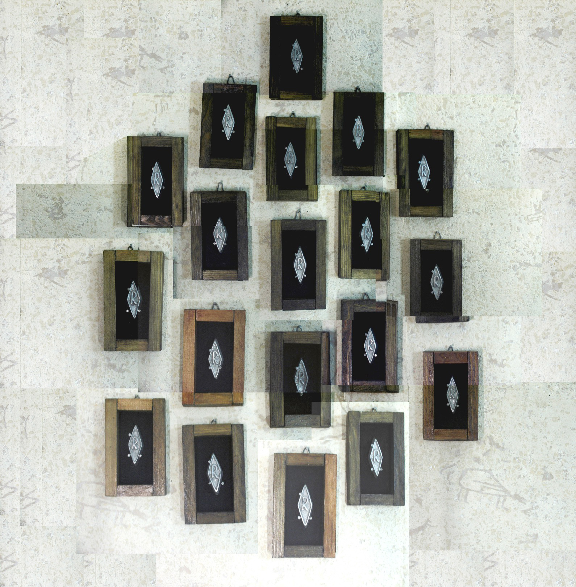 Roundelay commemoratives